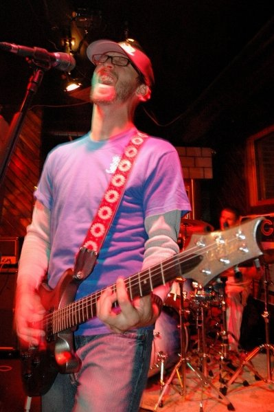 The Picture Of Davy Williamson Performing Live On Stage.